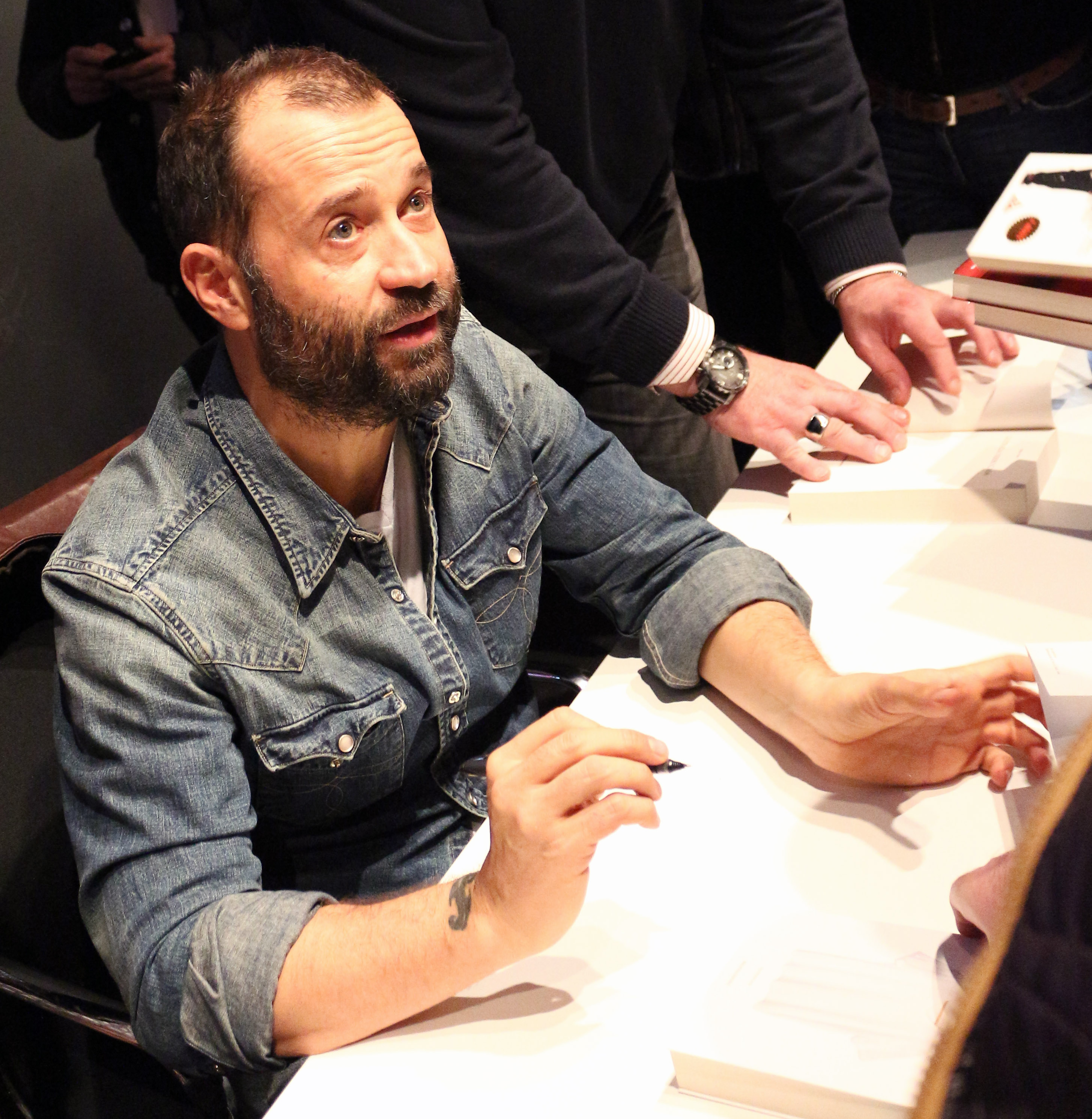 Fabio Volo in Savona